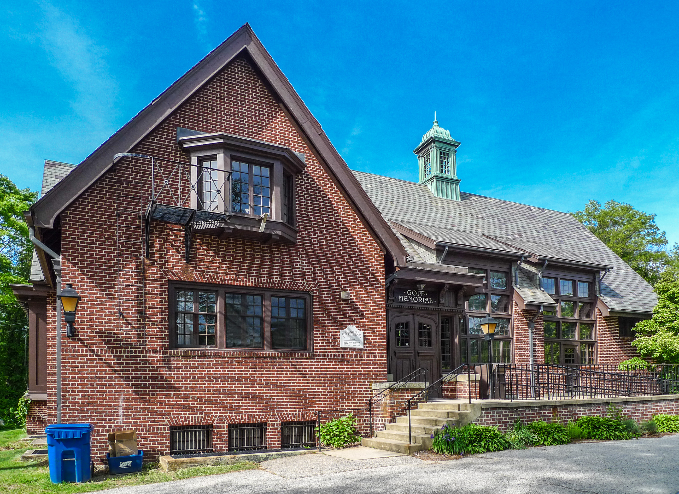 Goff Memorial Hall (1915), home of the Blanding Public Library.